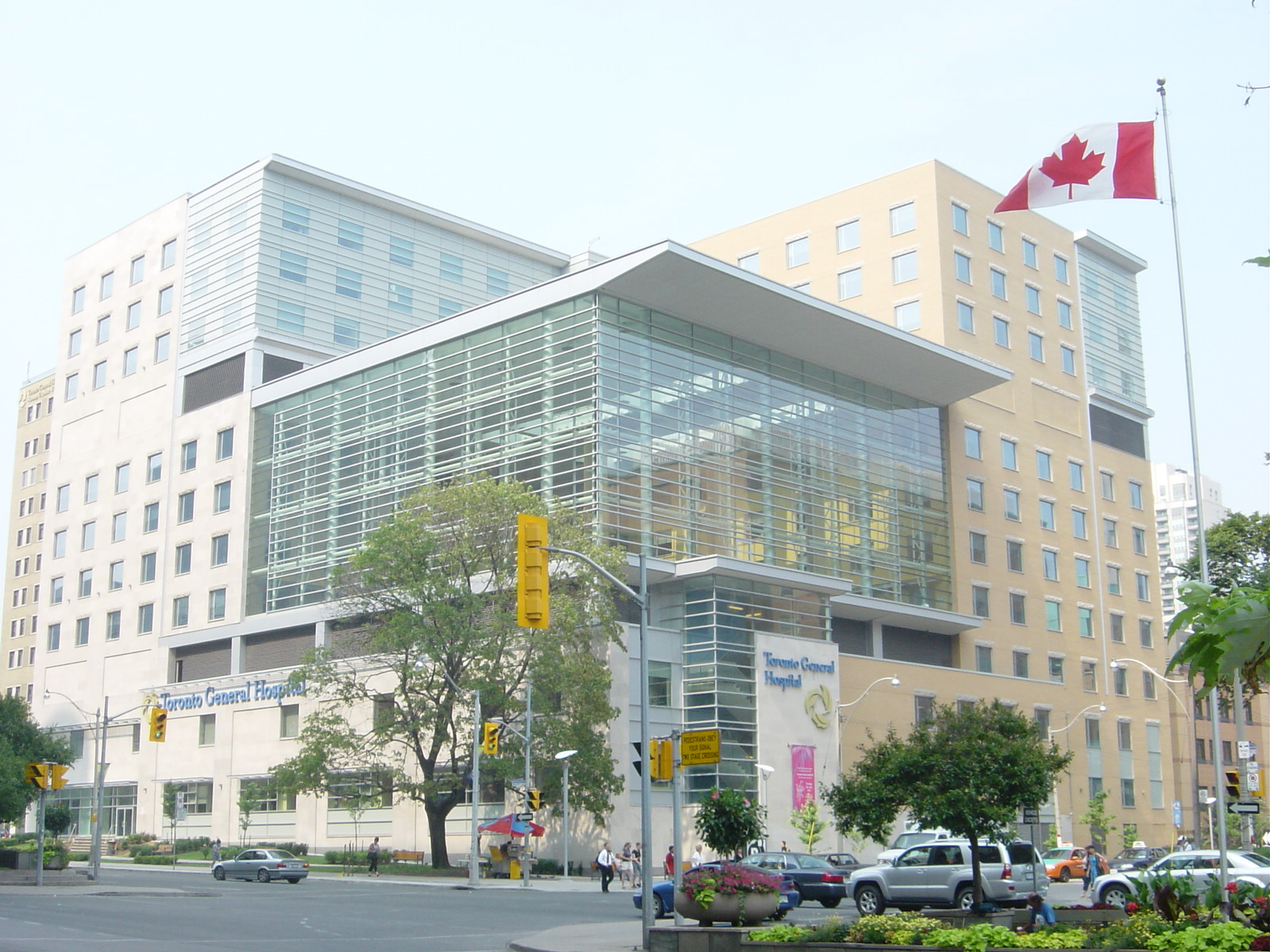 Front view of the Toronto General Hospital in Toronto, Ontario, Canada. 2005. The new wing, as shown in the photograph, was completed in 2002.